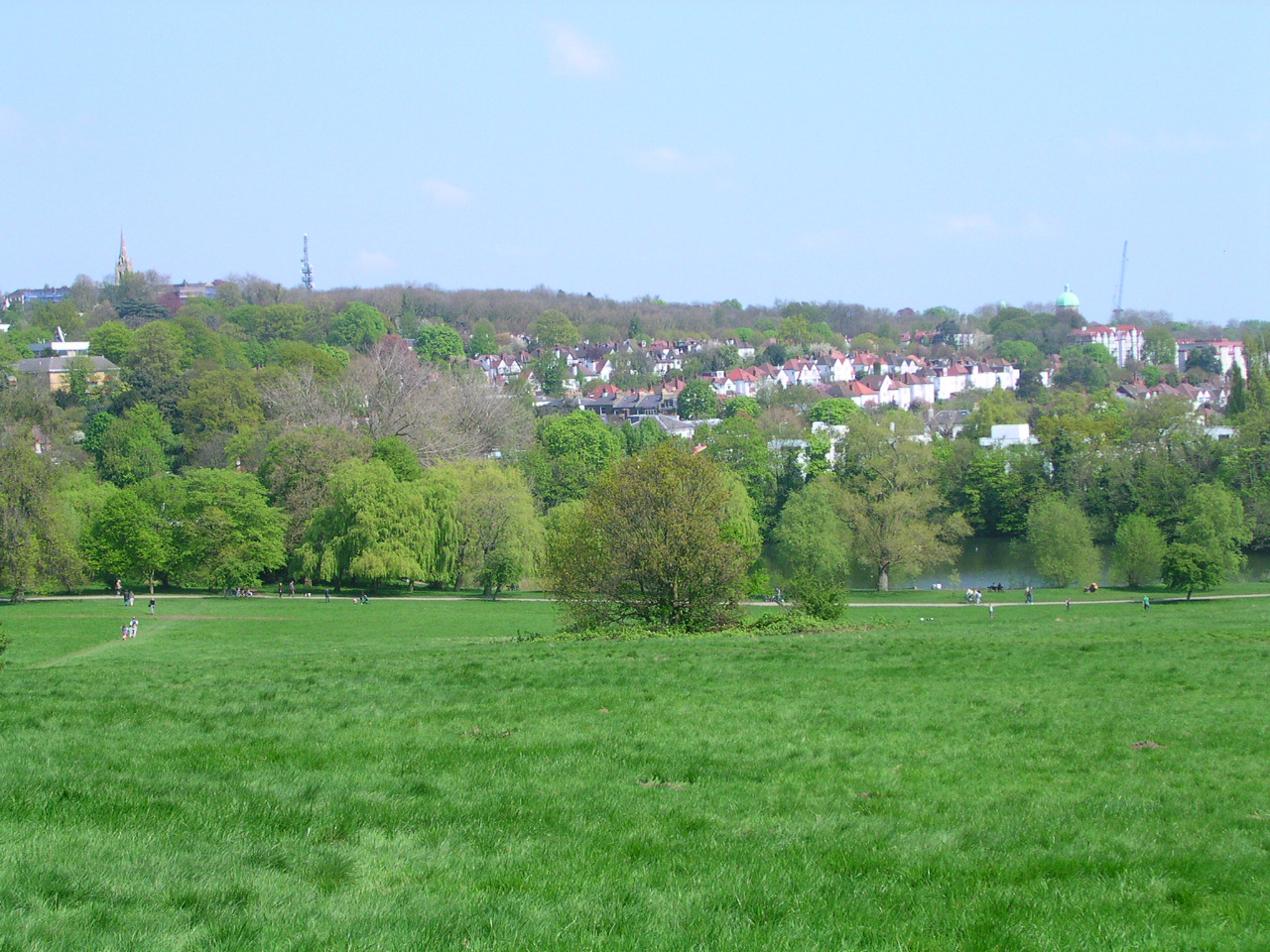 View of Highgate from Hampstead Heath, London, England.